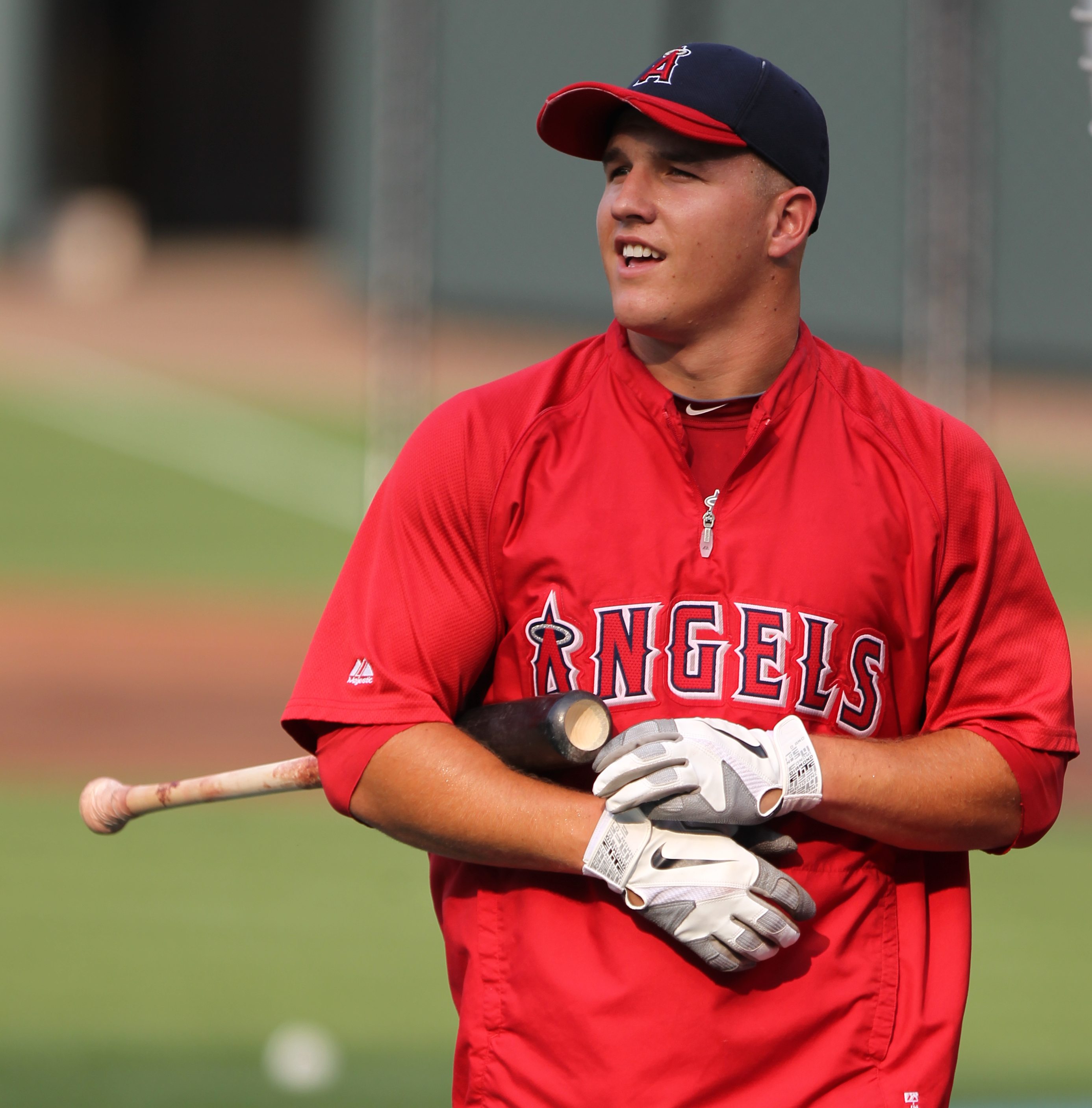 Angels at Orioles July 23, 2011